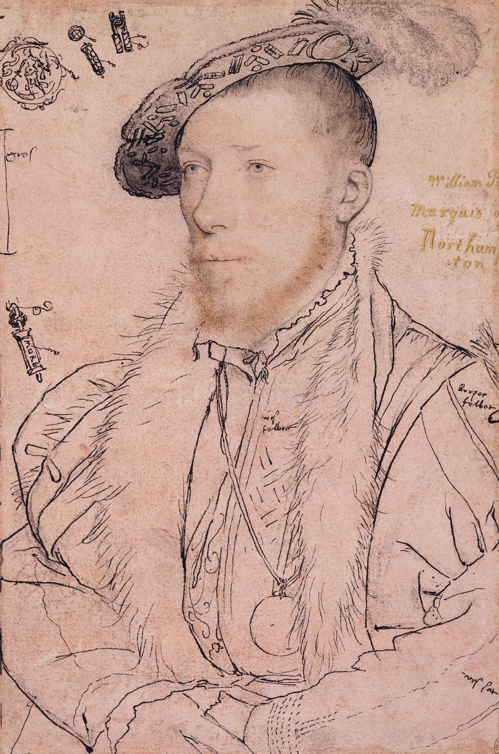 Black and coloured chalks, pen and Indian ink, white bodycolour, on pink-primed paper, The chalks are rubbed but the high-quality penwork is recognisable as Holbein's.[1] His extensive colour notes show that the planned oil portrait would have depicted Parr in the costly satin and white and purple velvet of the nobility. A sketch on the left details the links of a chain, including the word "MORS" (death), perhaps connected to a motto. A design at top left shows a figure, possibly representing St George and the Dragon as the motif for the hat badge.[2] William Parr, 1st Marquess of Northampton (1513–71), was a leading courtier under Henry VIII, Edward VI, and Elizabeth I, though he was out of favour under Mary I, when the government stripped him of his titles and declared his marriage illegal. Parr rose to power as the younger brother of Katharine Parr, the sixth wife of Henry VIII. References ↑ K. T. Parker, The Drawings of Hans Holbein at Windsor Castle, Oxford: Phaidon, 1945, [ OCLC 822974, p. 51. ↑ Susan Foister, Holbein in England, London: Tate, 2006, ISBN 1854376454., p. 80.